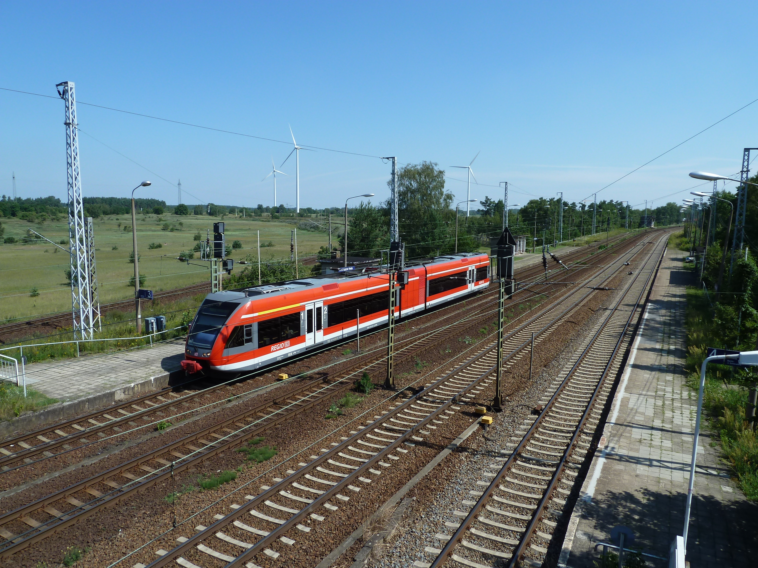 Train station in Genshagener Heide, south of Berlin